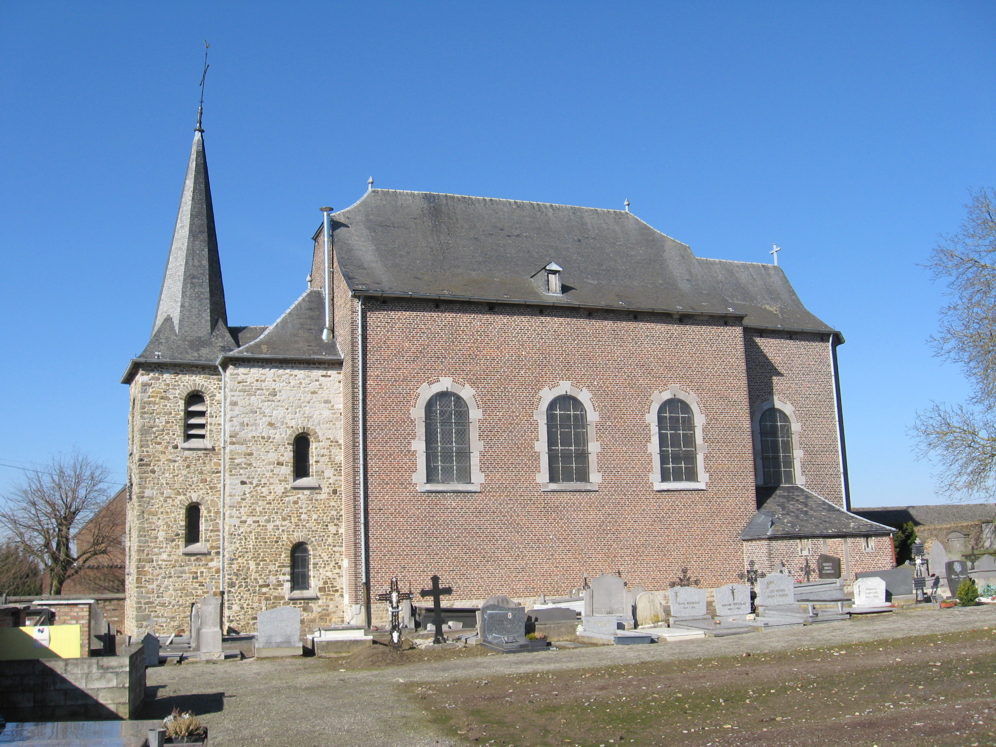 Church of Saints Cyriacus and Juliet in Donceel, Liège, Belgium